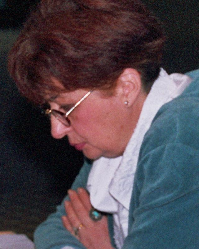 Tamara Khmiadashvili, Senior Chess World Championship 1996 at Bad Liebenzell, Photographer Gerhard Hund.